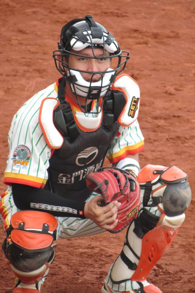 Kao Chih-kang at a baseball game of Tainan of Taiwan in October 6, 2013.